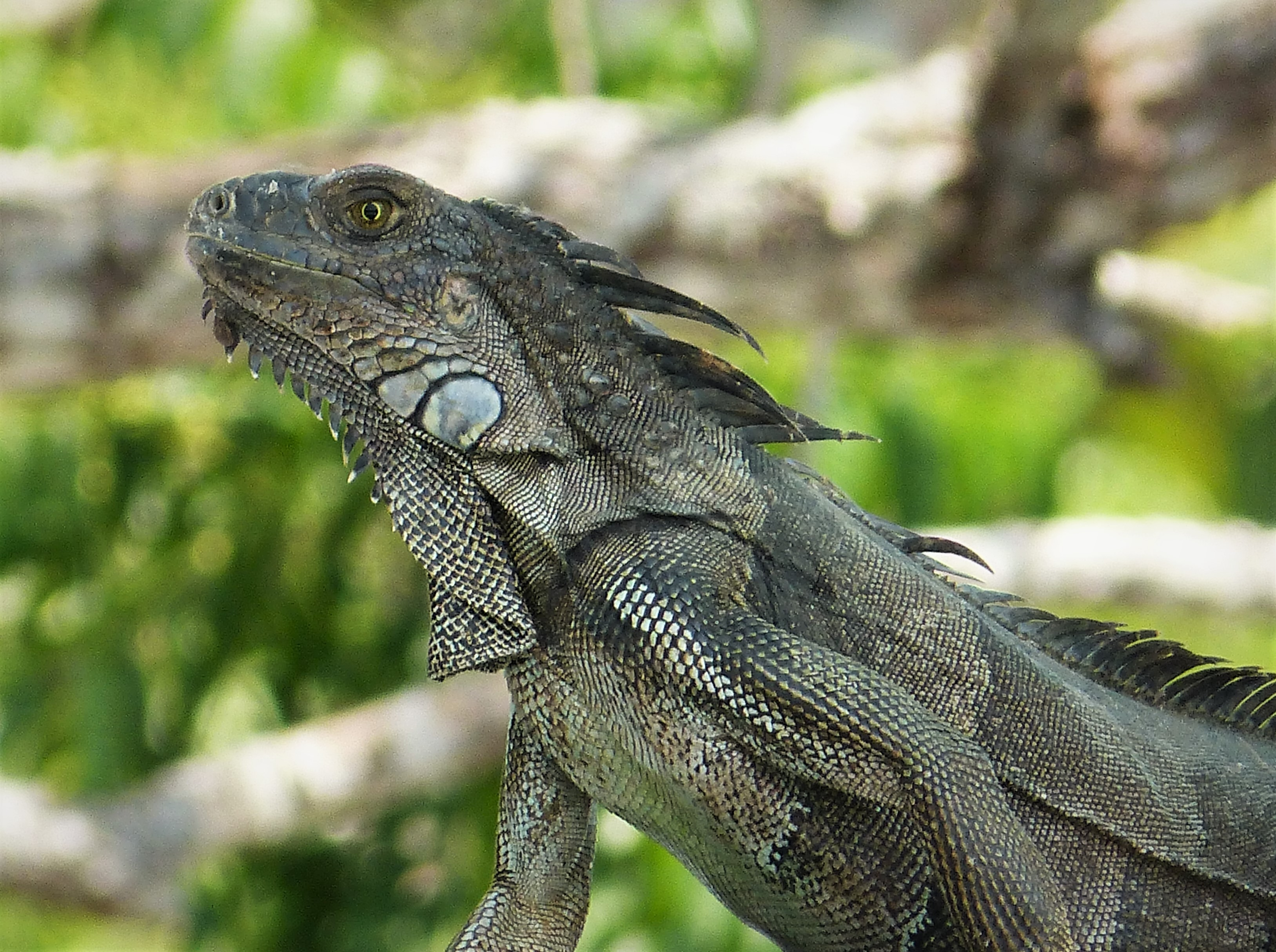 Swimming with Iguana ! Radisson Hotel, canal zone, Panama